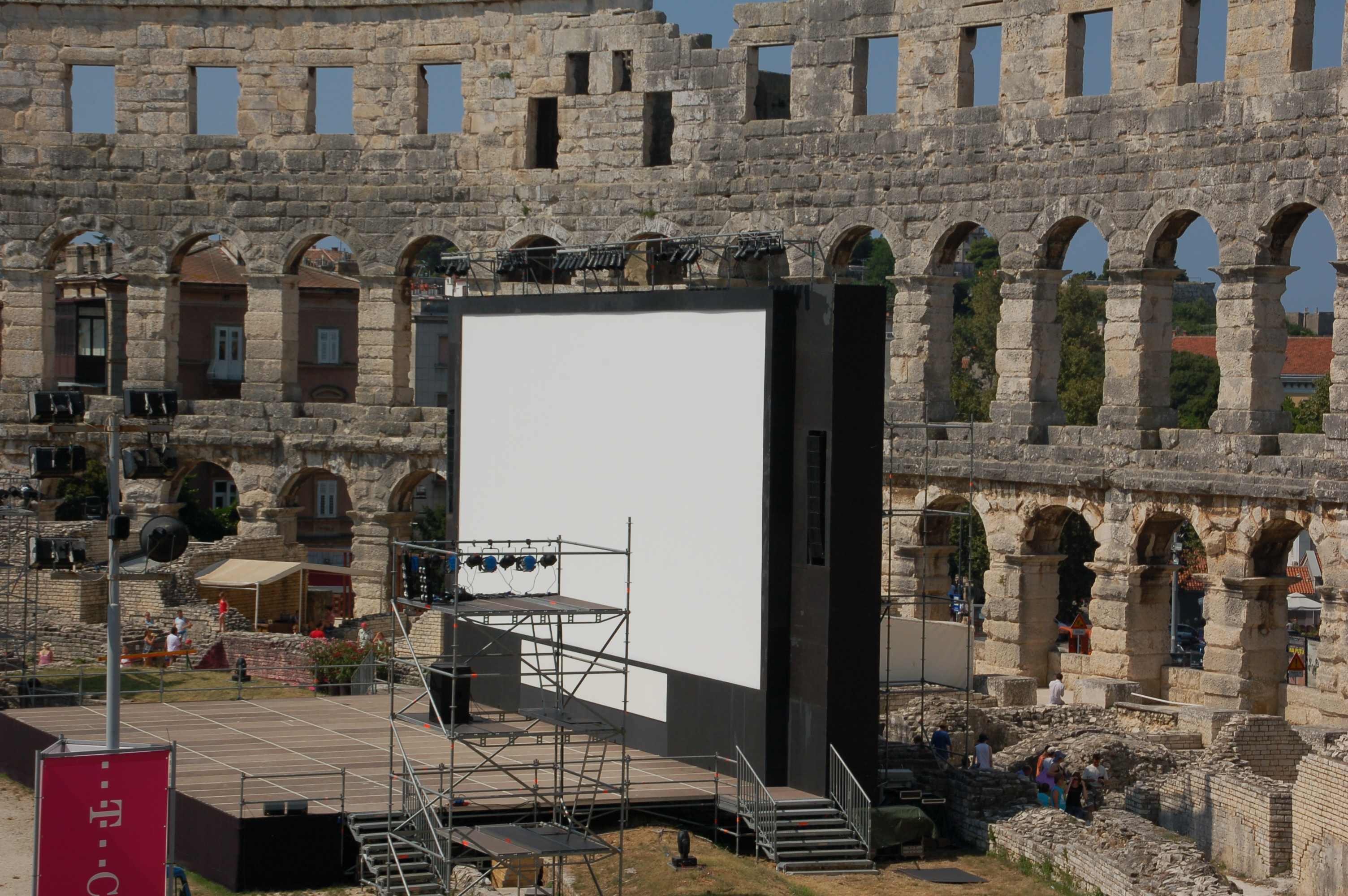 Film festivals Pula in the amphitheatre, Croatia, Istria, Pula